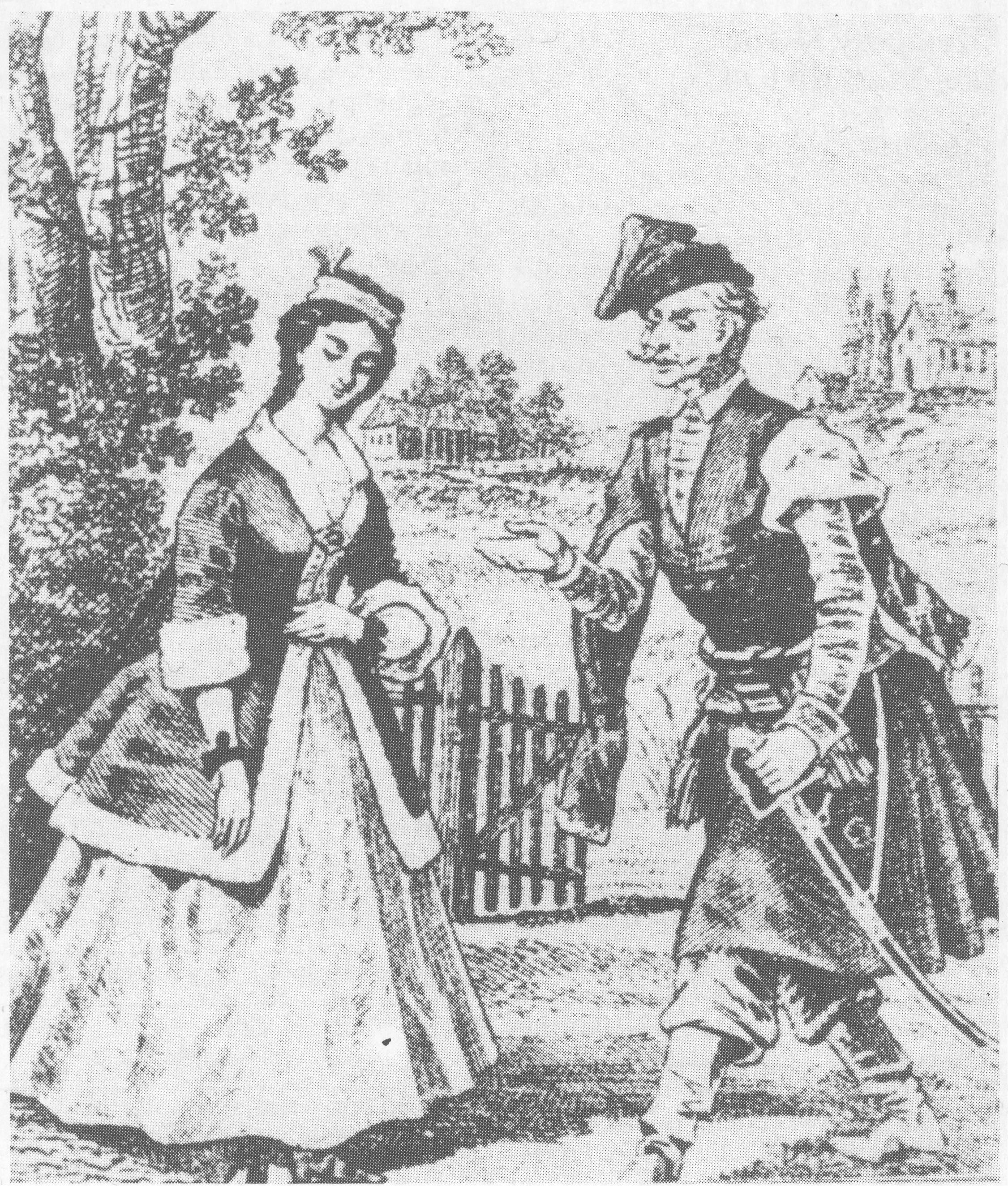 Scene from S. Moniuszko's "Verbum nobile". Etching by J. N. Lewicki, 1861